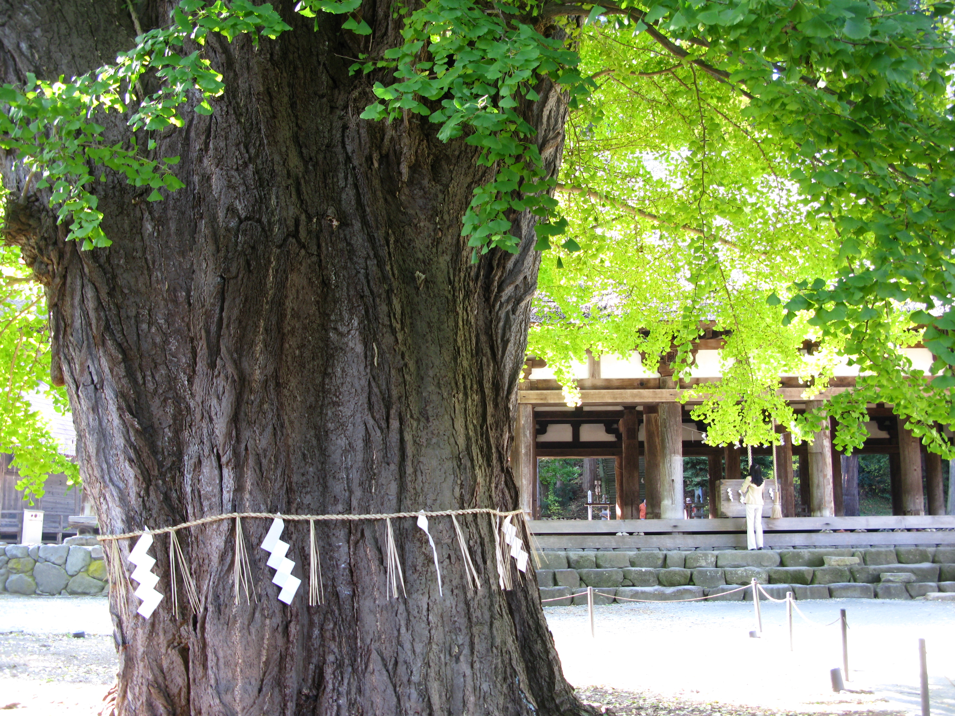 Shrine Shingu-Kumano-jinja, Oicho, Kitakata city, Fukushima pref., Japan